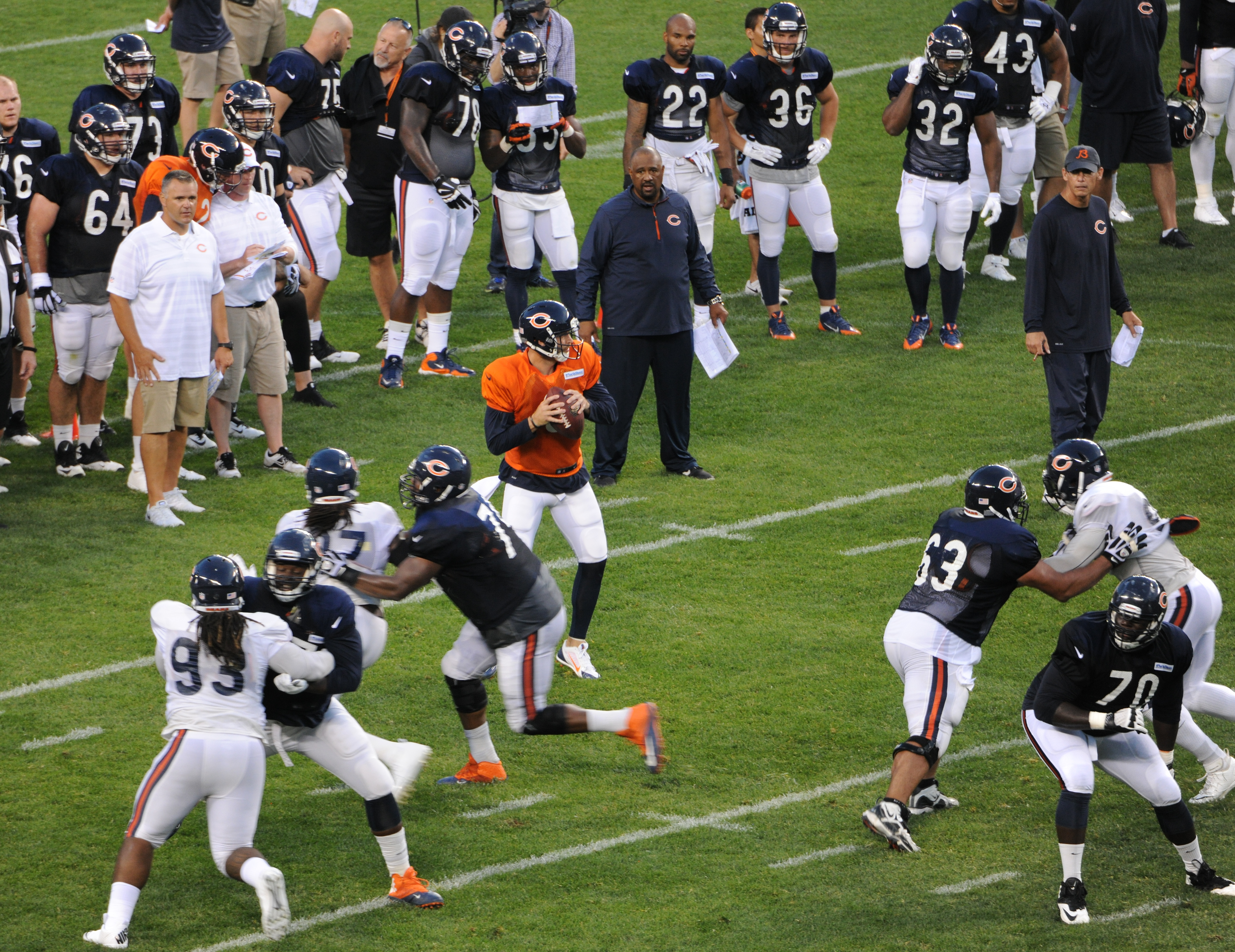 Bears QB Jay Cutler prepares to throw during a practice session in 2014. Coach Marc Trestman looks on but the eyes of Jay look on and beyond.